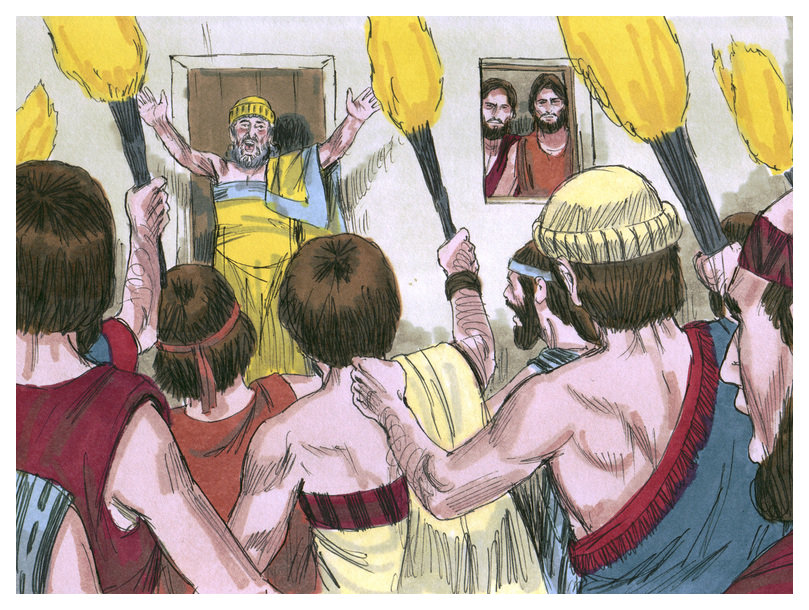 Biblical illustration of Book of Genesis Chapter 19